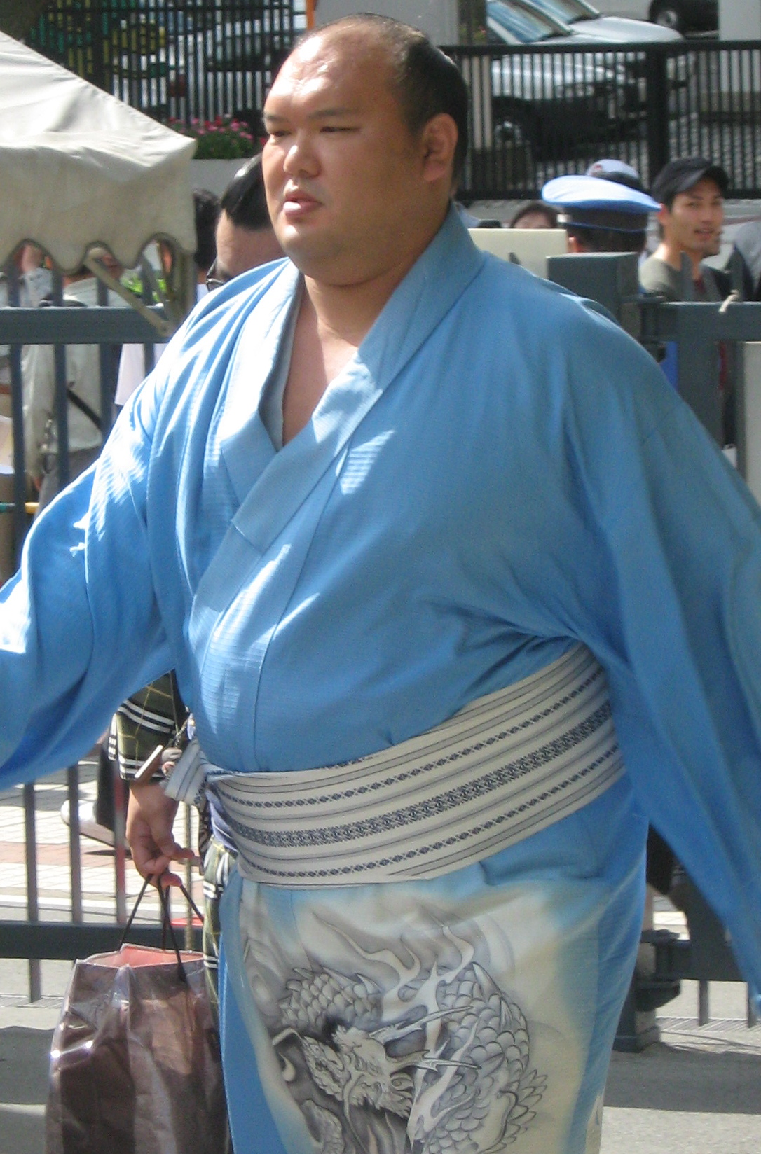 Picture taken at Sep 2008 tournament